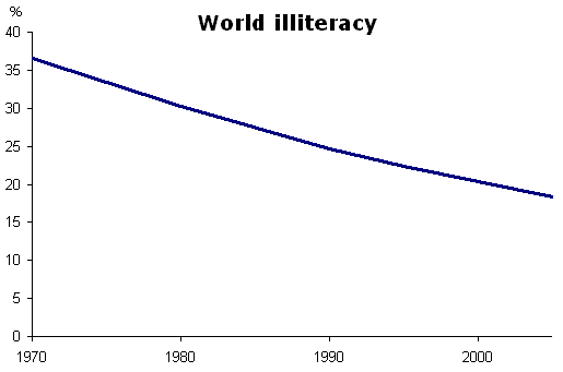 World illiteracy